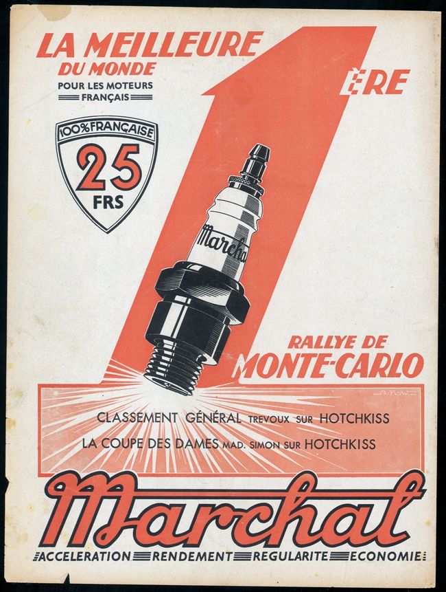 Marchal_Affiche_1927